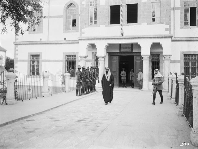 Photo Feisal leaving Chauvel's ghq Damascus Other information Copyright expired access unrestricted